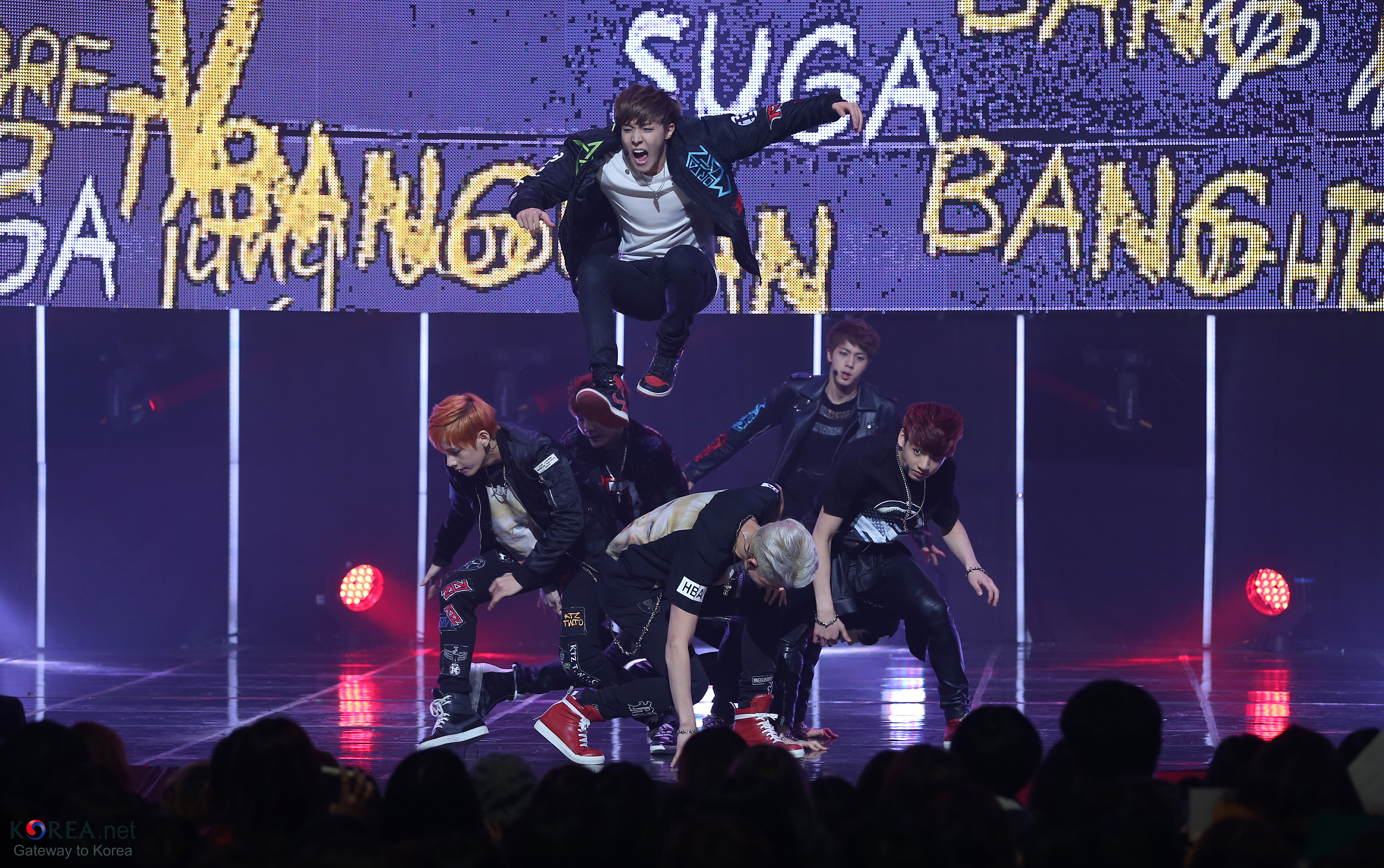 Mcountdown BTS ‘Boy in Luv’ Rap Monster, Suga, Jung Kook, Jimin, V, J-Hope, Jin CJ E&M Center, Sangam-dong, Mapo-gu, Seoul 2014.03.06. Ministry of Culture, Sports and Tourism Korean Culture and Information Service ( Jeon Han 엠카운트다운 생방송 방탄소년단 ‘상남자’ 랩모스터, 슈가, 진, 제이홉, 지민, 뷔, 정국 2014-03-06 CJ E&M 센터 문화체육관광부 해외문화홍보원 코리아넷 전한